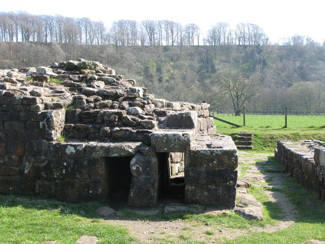 The sluices in the eastern abutment of Willowford Bridge. The east sluice is blocked. See also 1359473.